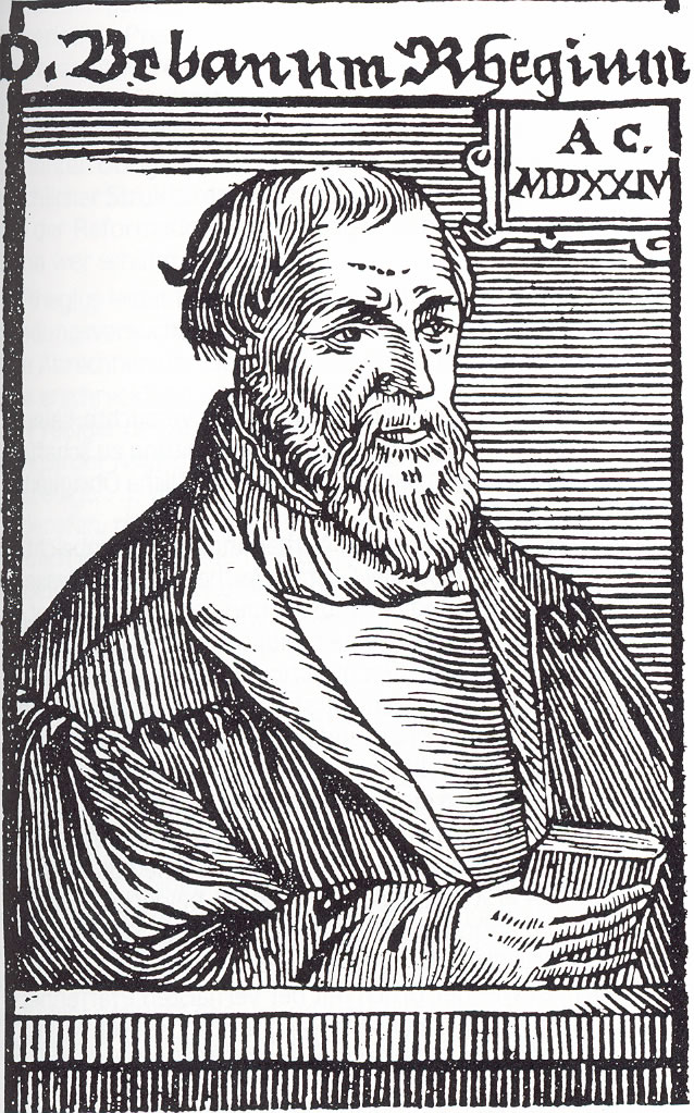 Urbanus Rhegius, german reformator